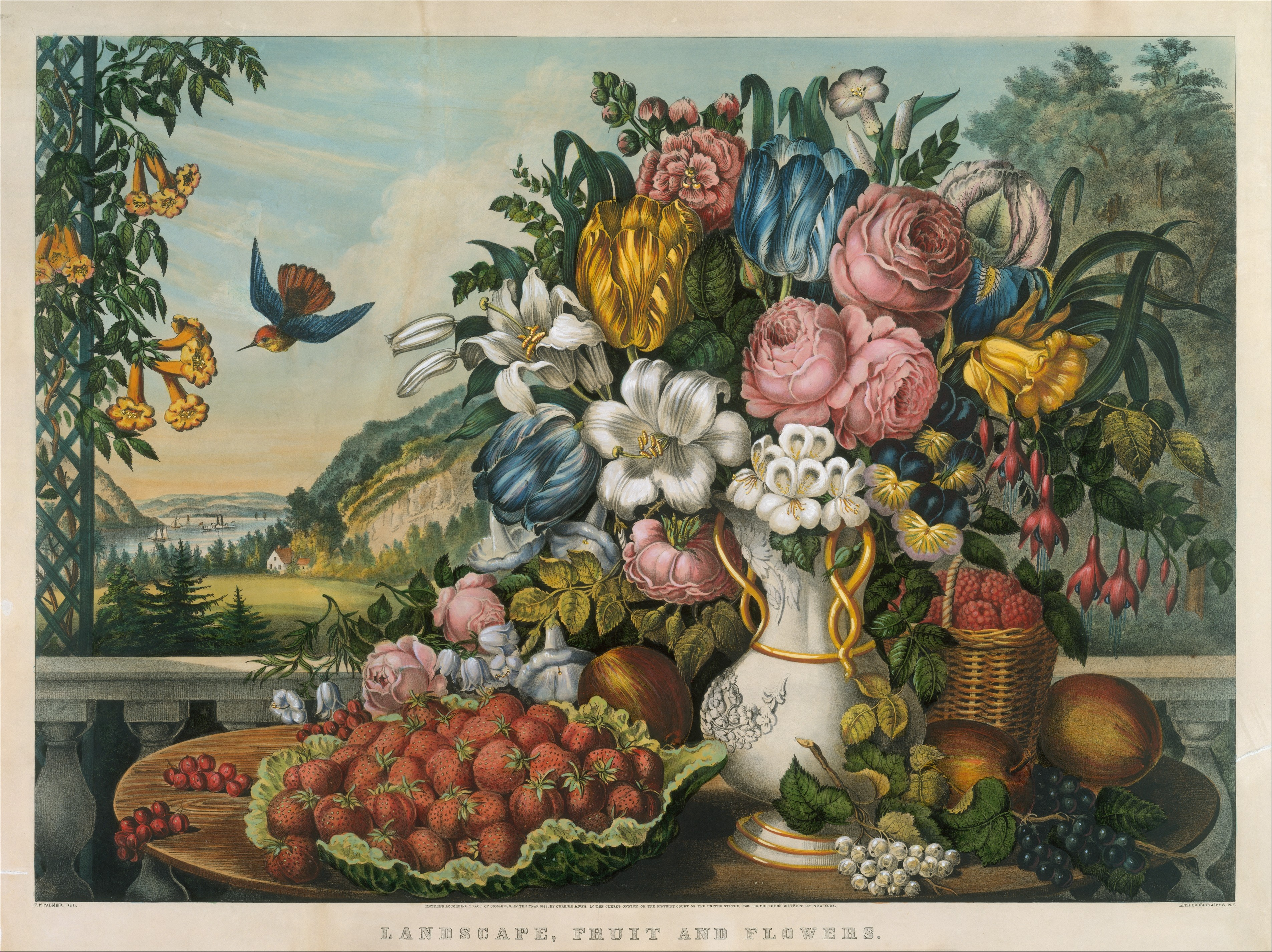 Lithographed and published by Currier & Ives